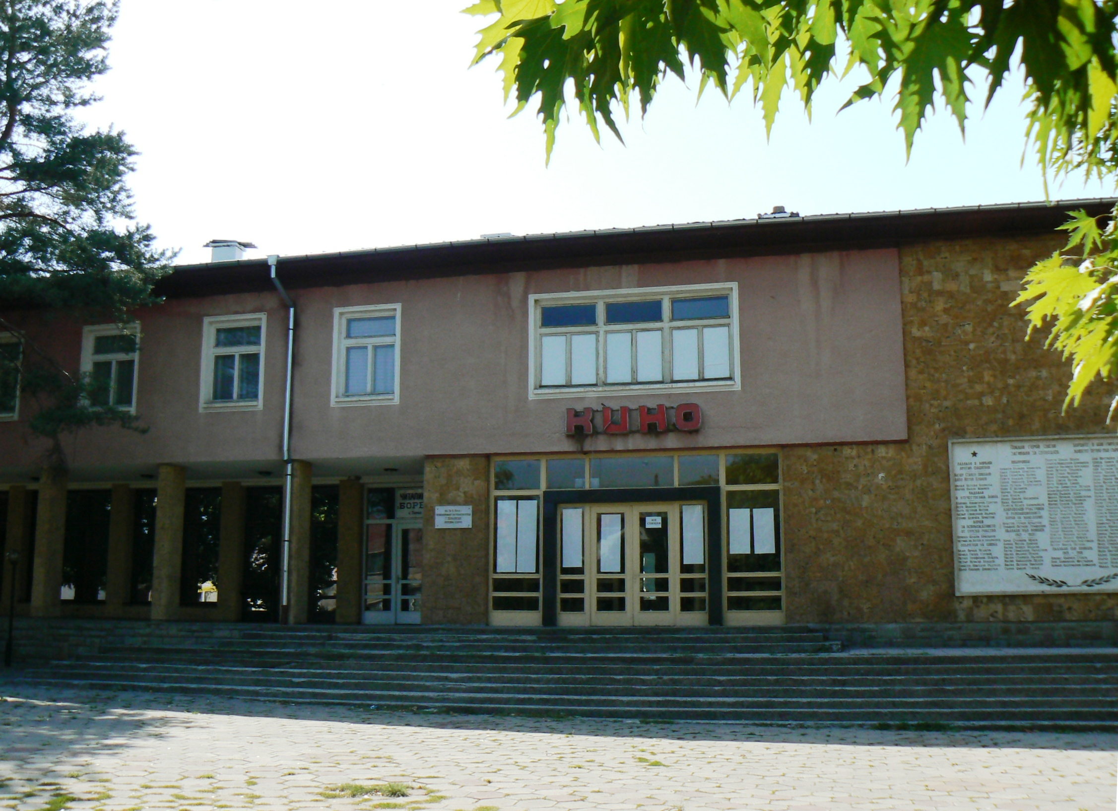 Library "Borba" ("Struggle") and the cinema in village Toros, Bulgaria